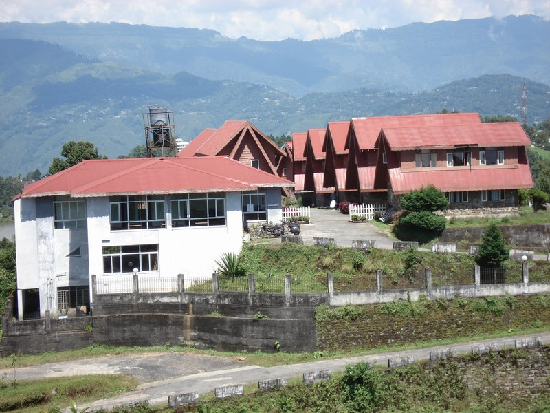 Motels in Mirik